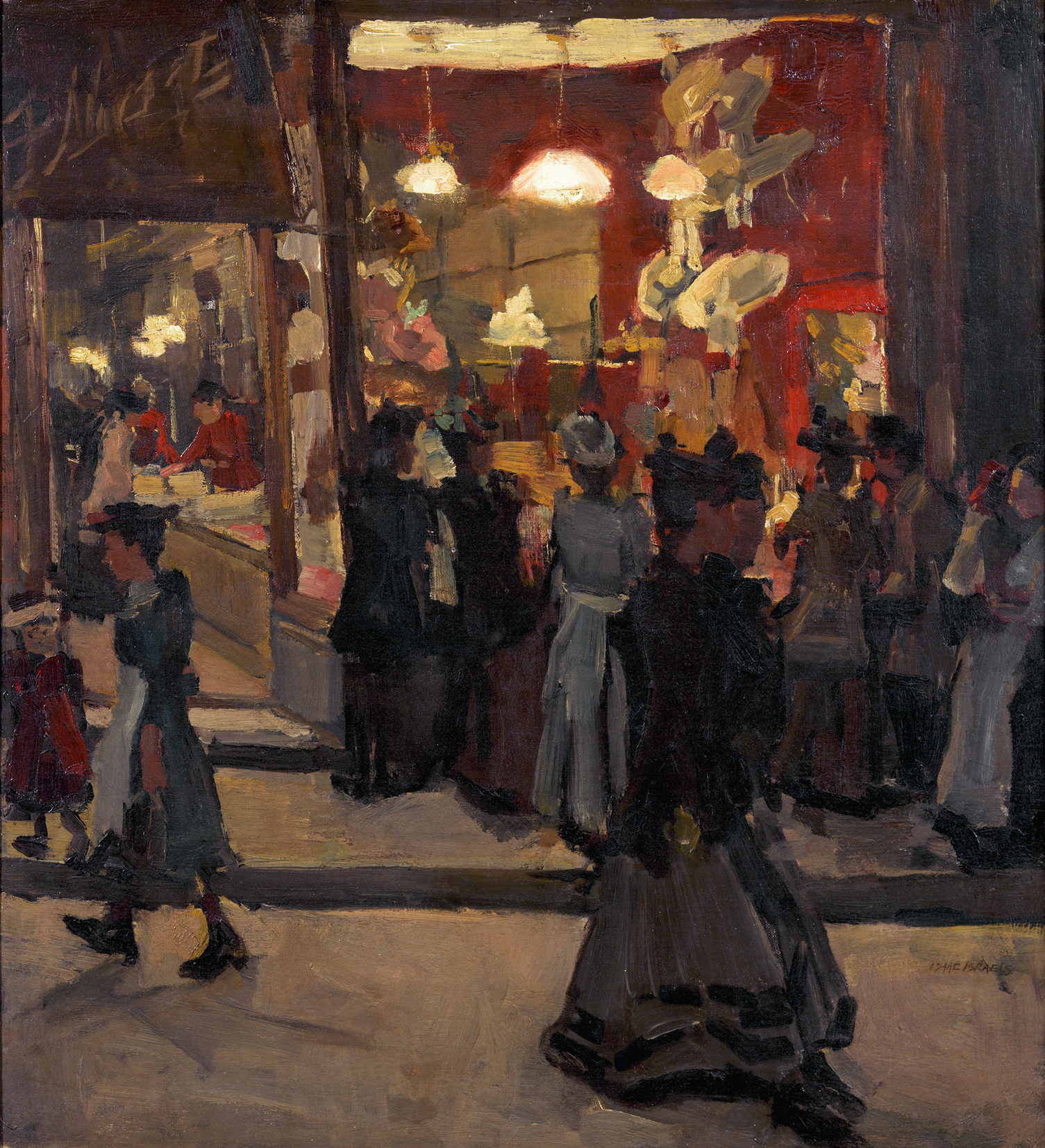 Hoedenwinkel